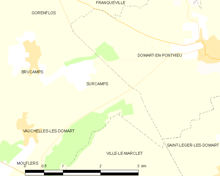 Map of French municipality Surcamps